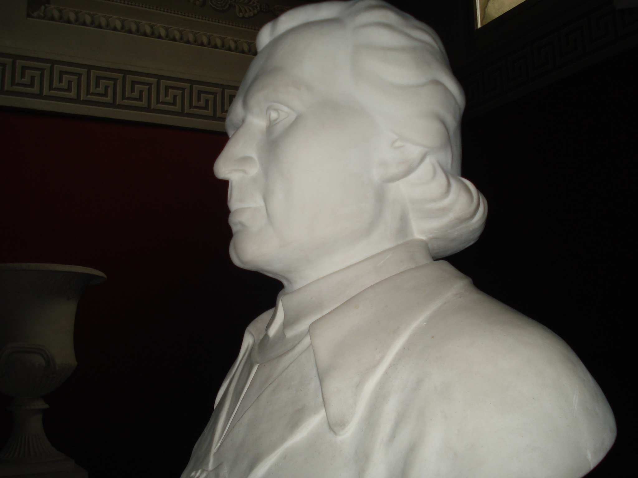 The Bust of astronomer Marcin Poczobutt-Odlanicki in the aula of Vilnius university